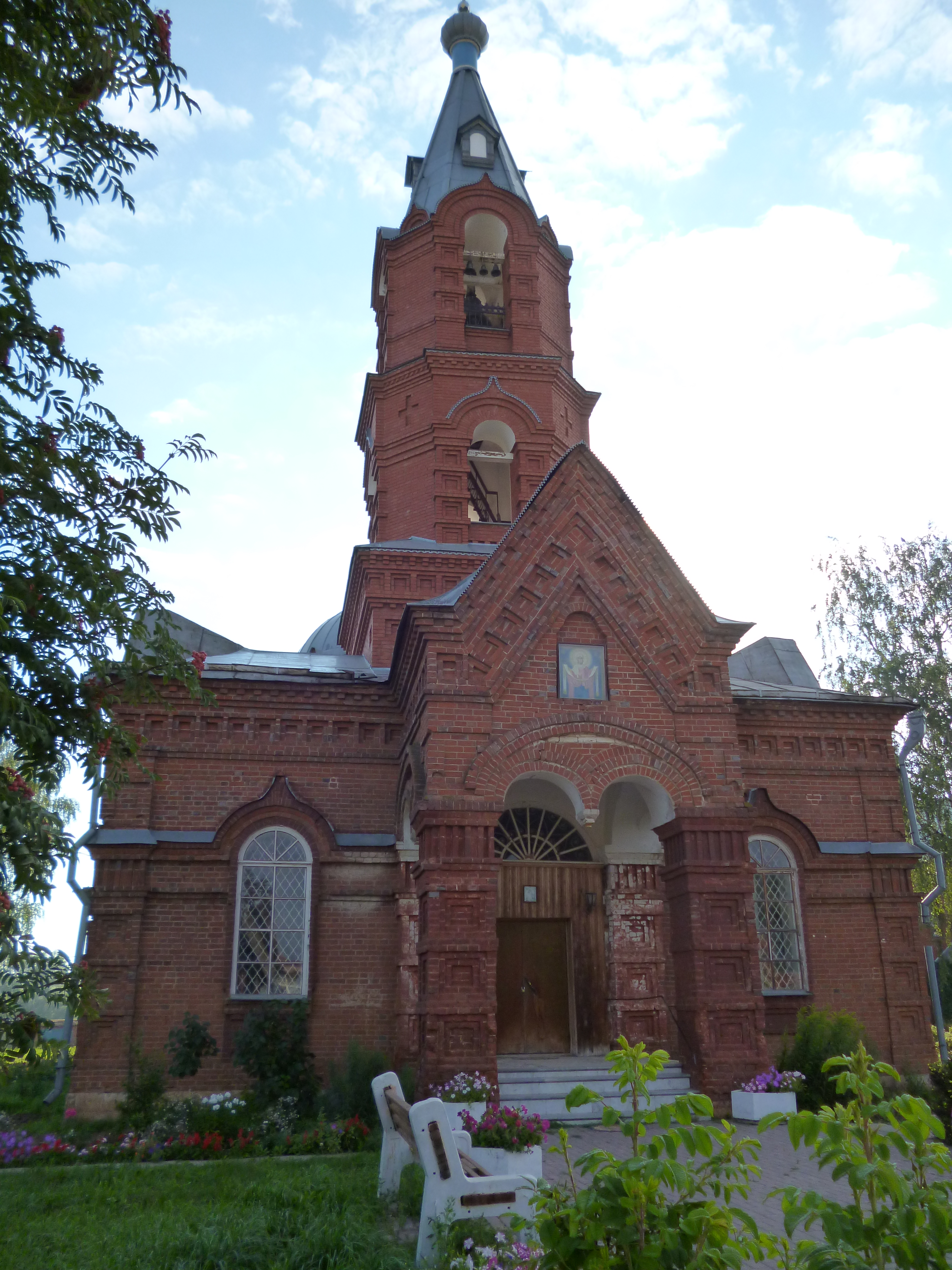 Temple